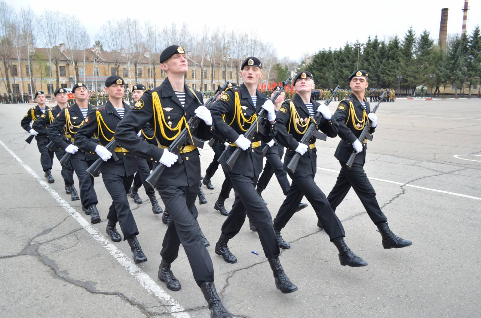 ДВВКУ